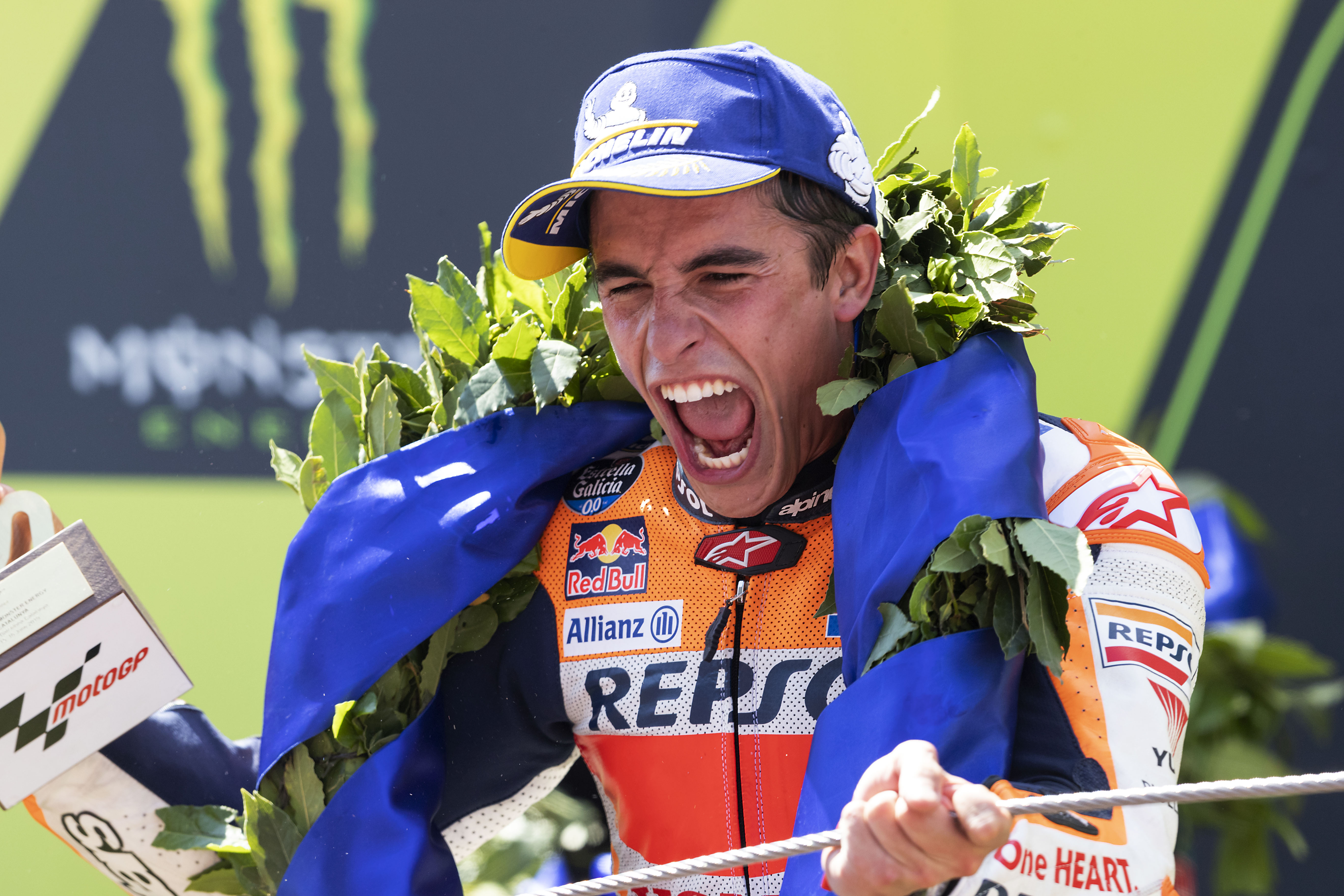 Marc Márquez, celebrating on the podium after winning the 2019 Catalan Grand Prix.